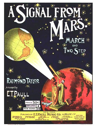 Sheet music cover "A Signal From Mars, March and Two Step", 1901. [1] Notes: Shows human-like intelligent life on planet Mars signaling the Earth. This was published at the time when Percival Lowell was publishing reports (later proved incorrect) of a system of canals on Mars just visible with high-powered telescopes, and probably most relevantly Nikola Tesla's report (also incorrect) of a wireless telegraph signal from Mars.